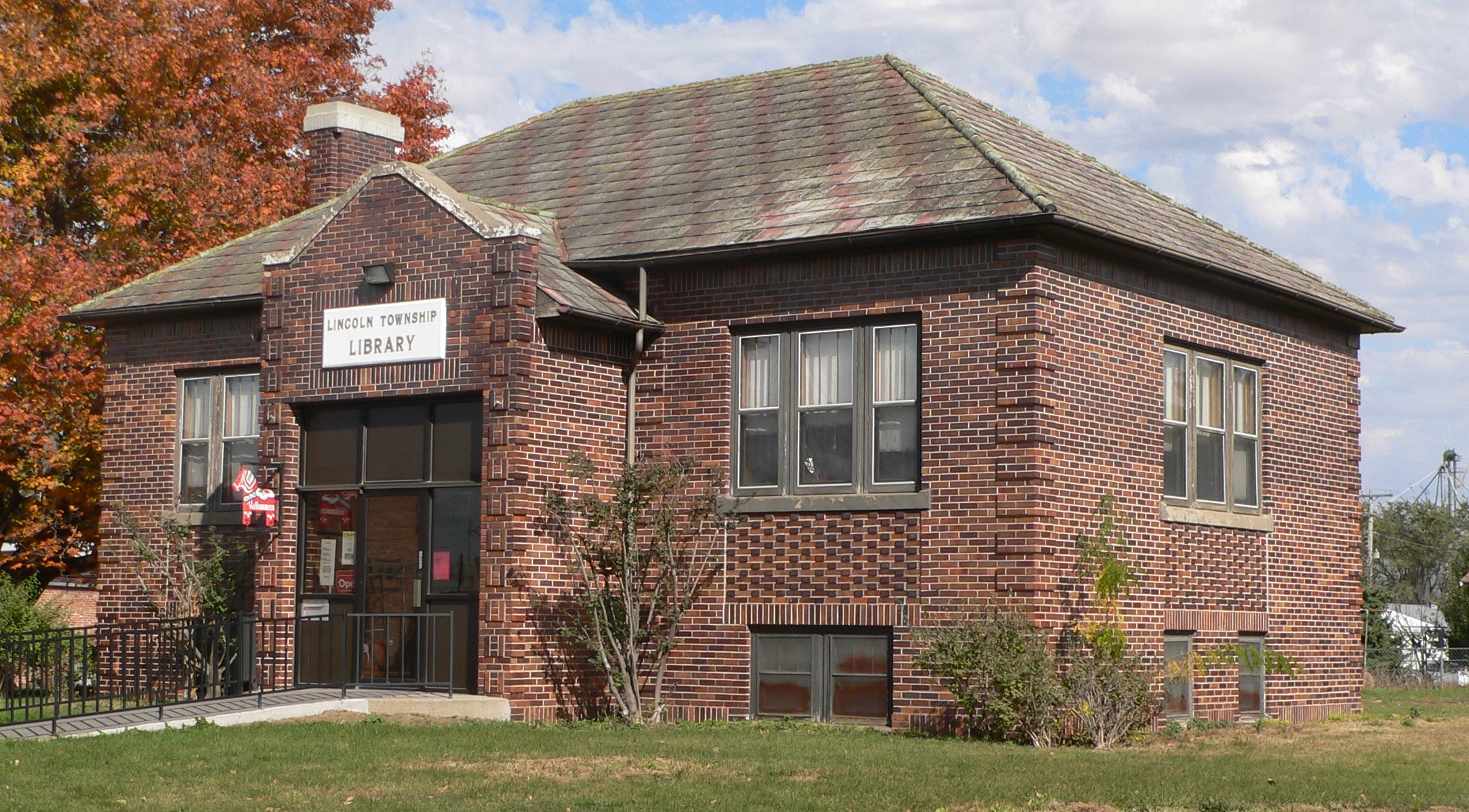 Lincoln Township Library in Wausa, Nebraska; seen from the southwest. Note the Dala horse beside the door.